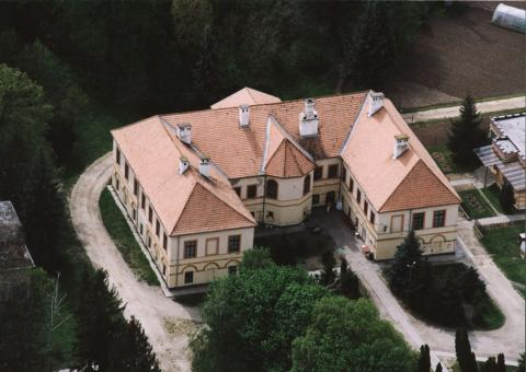 Dáka, Hungary, aerial photography This is a photo of a monument in Hungary, Identifier: 9830